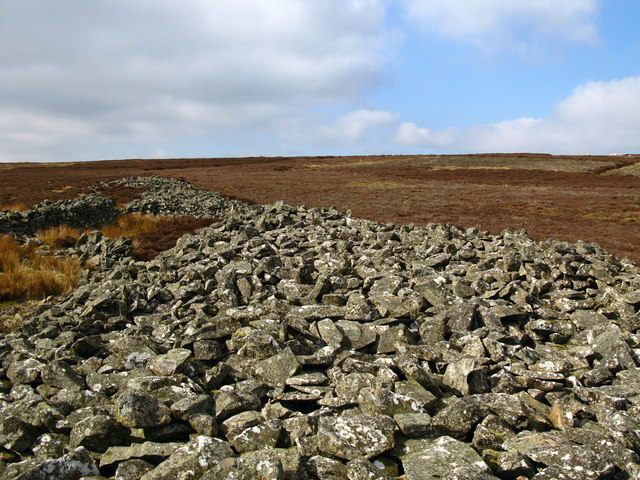 Mutiny Stones, Byrecleugh Ridge The Mutiny Stones is a Stone Age,long cairn composed of irregular stones, situated in high Lammermuir moorland. Supposedly they were put there by the Devil, falling from his mittens as he passed overhead and were originally named 'Mittenfu of Stones'. The name was later corrupted to Meeting Stones and then to the present day Mutiny Stones. It is the only one of its type in Berwickshire. It measures about 270ft. Where the centre of the cairn is exposed by robbing to provide enclosures for sheep, many large stones can be seen. The maximum height of the cairn is 8ft although it is thought it was previously nearer to 18ft. View west.